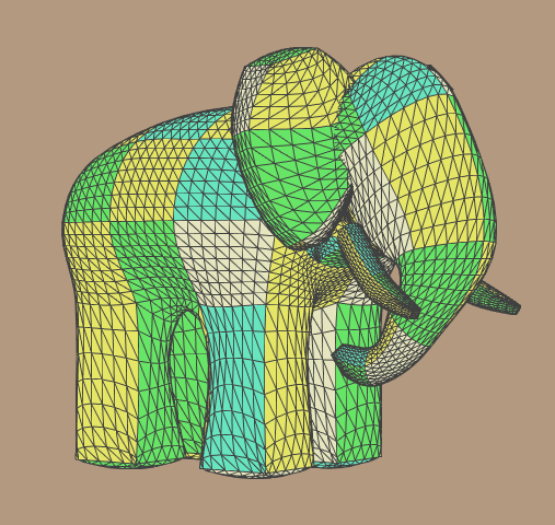 Diagram of the Bicubic Patches in Ed Catmull's Gumbo model.